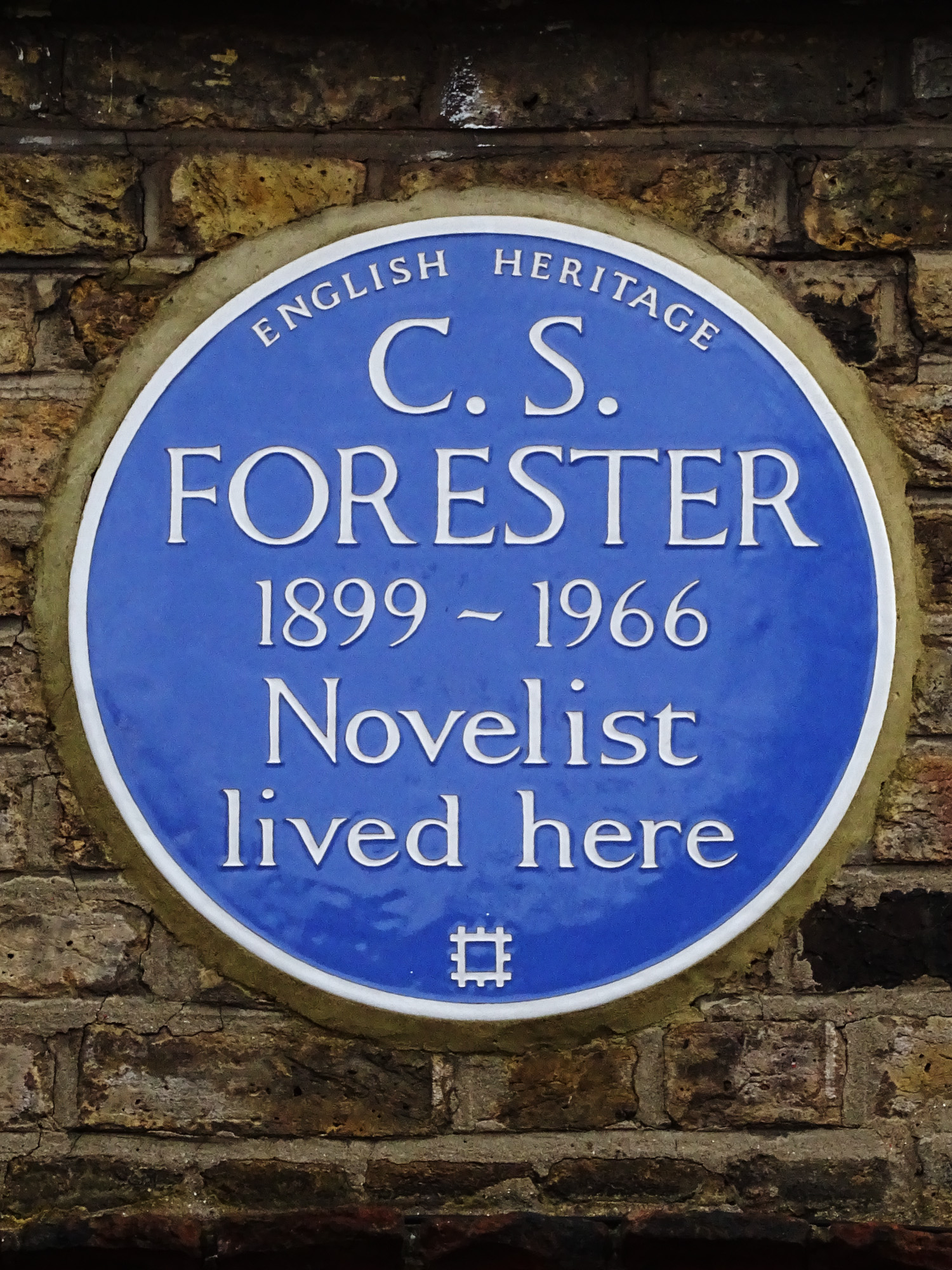 Blue plaque erected in 1990 by English Heritage at 58 Underhill Road, East Dulwich, London SE22 0QT, London Borough of Southwark